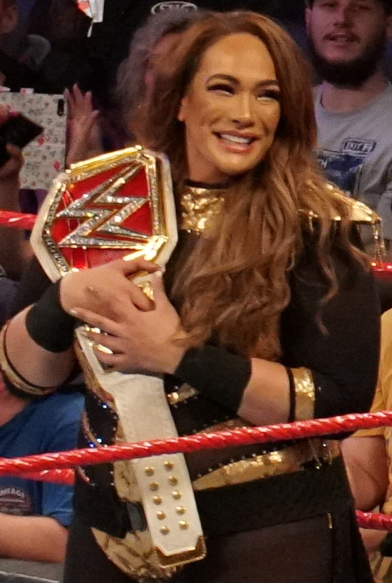 NOLA 2018 - WWE RAW - Ember Moon & Nia Jax Vs Alexa Bliss & Mickie James Ember Moon & Nia Jax def. (pin) Alexa Bliss & Mickie James (in 03:02) Beginning of Ember Moon at Raw ( Deux semaines a Nola pour la ville et pour WWE Wrestlemania XXXIV Two weeks Nola for the city and for WWE Wrestlemania XXXIV )